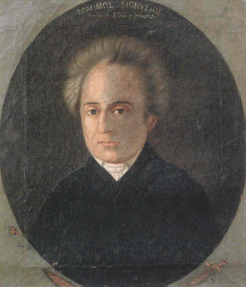 Portrait of Dionysios Solomos (1798-1857)